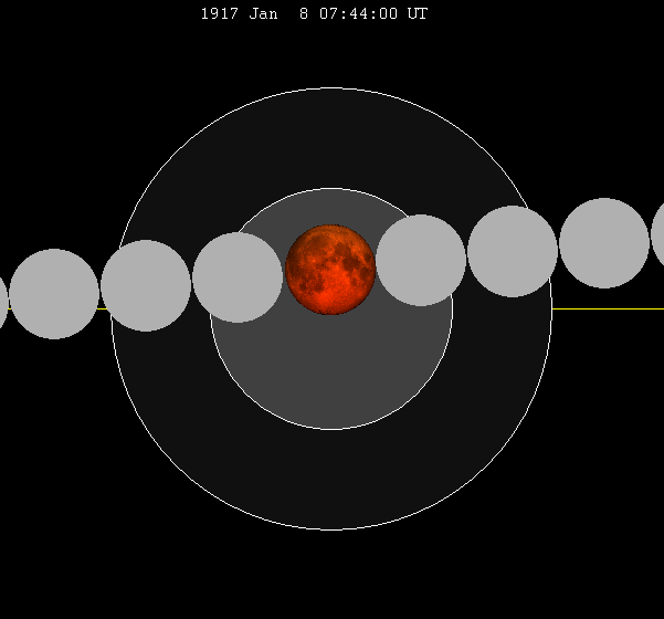 January 1917 lunar eclipse chart of moon's lunar eclipse path through the earth's shadow. thumb